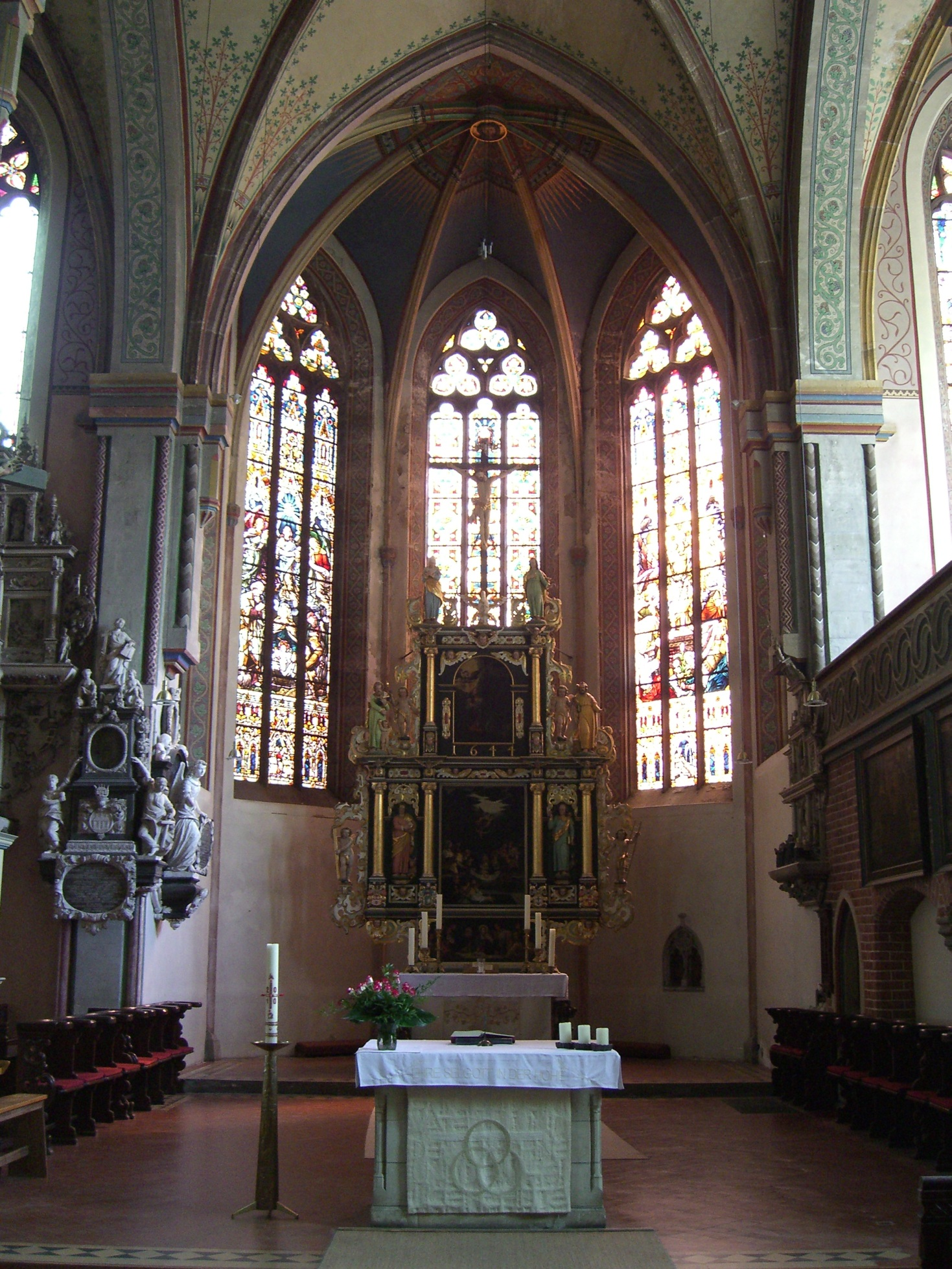 Evangelical-lutheran church "Saint Stephen" (St. Stephani) in Helmstedt: altars.